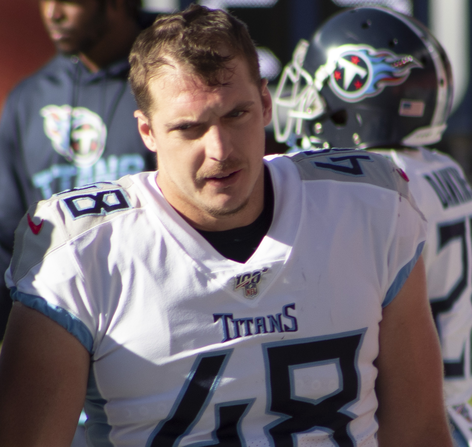 Beau Brinkley with the Tennessee Titans on October 13, 2019